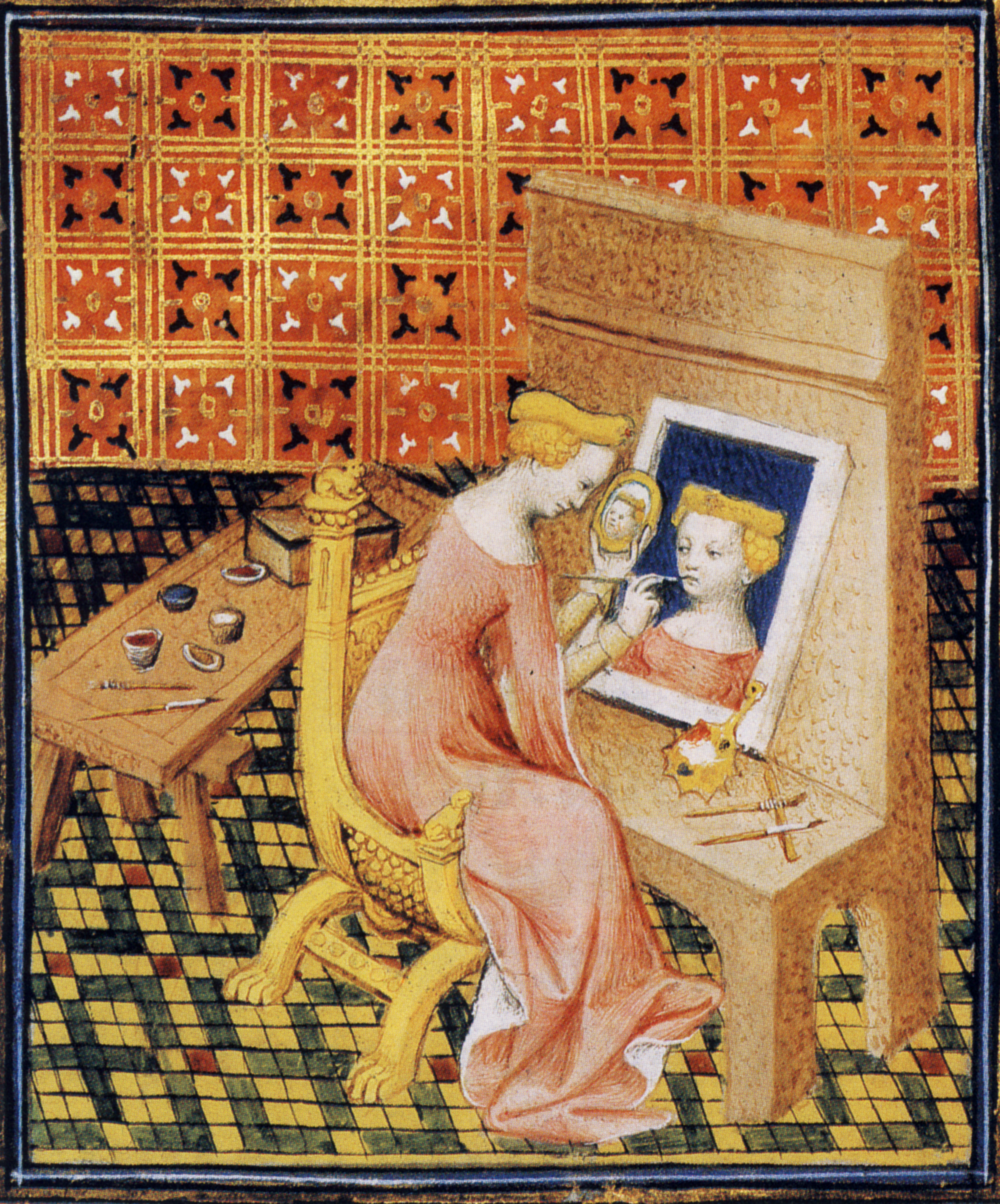 15th century illustration from Giovanni Boccaccio's De Mulieribus Claris. In the collection of the Bibliothèque nationale de France.